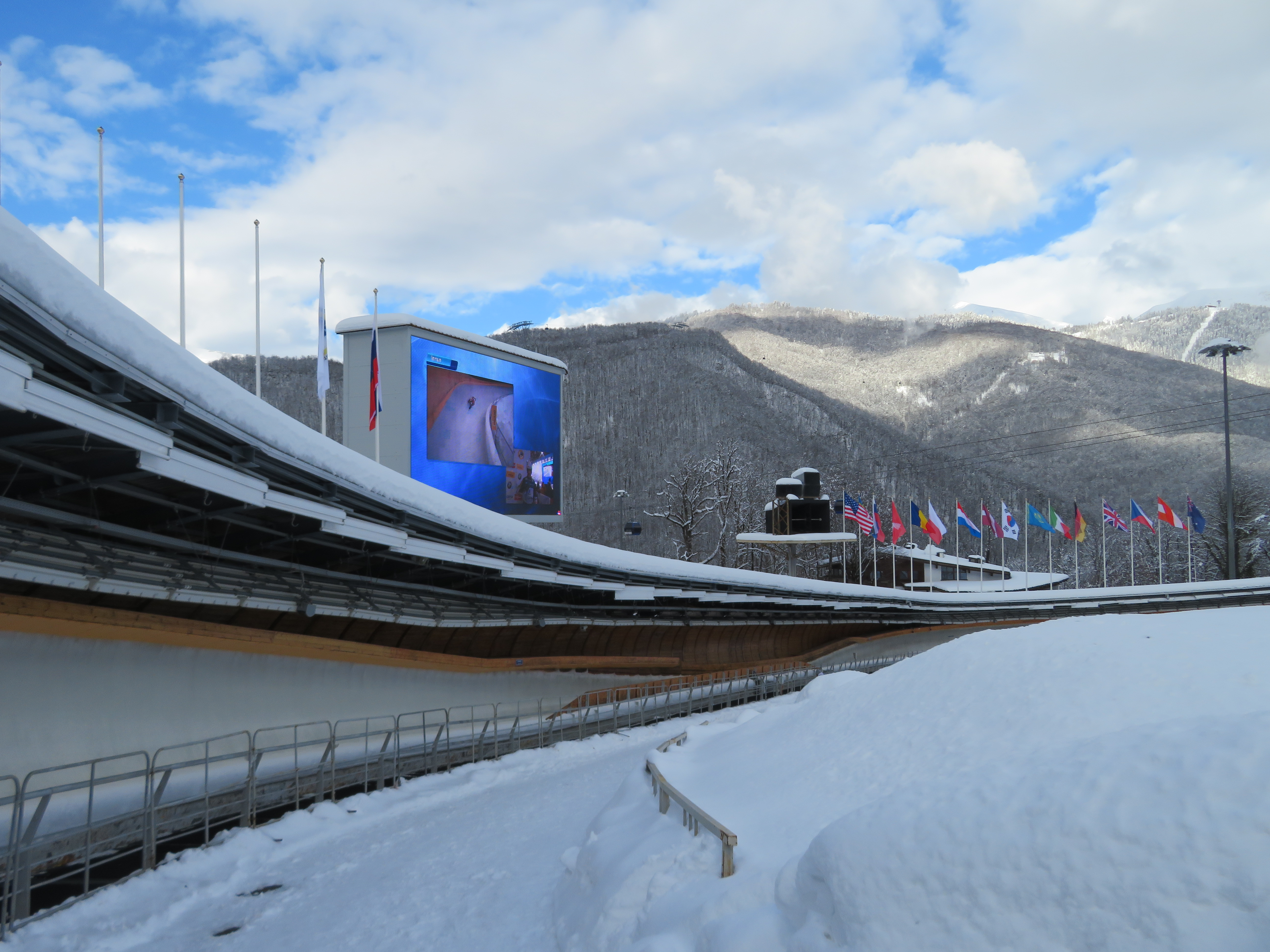 Track of the Sliding Center Sanki in Sochi on 14 February 2020 during the FIL World Luge Championships.